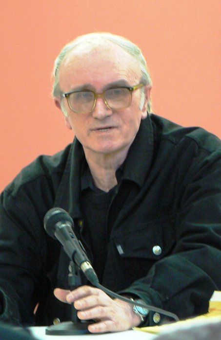 Bulgarian poet Ivan Tsanev